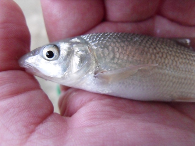 Head of a juvenile Luciobarbus graellsii hooked in Ombrone river (Tuscany, central Italy). Released after photo.